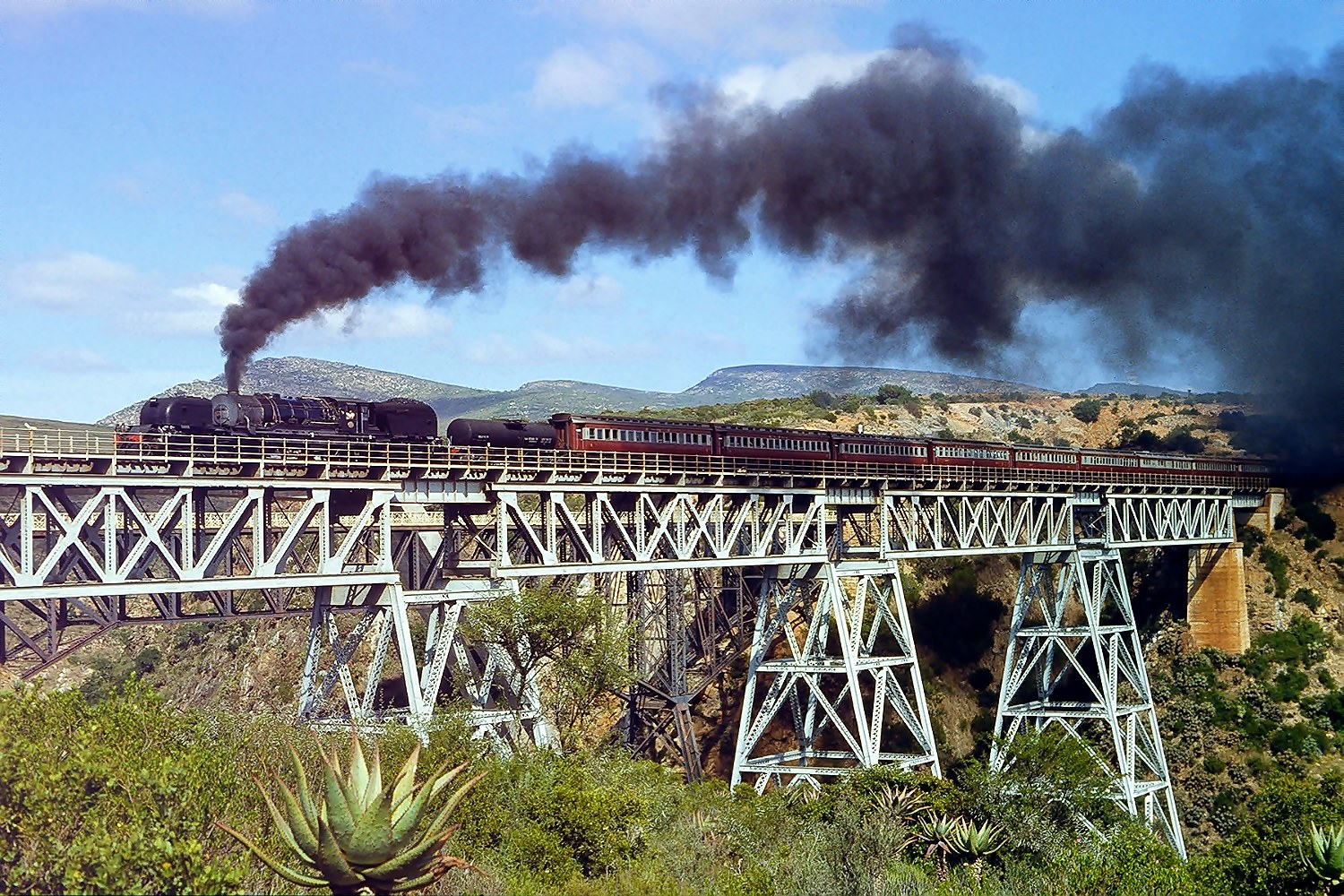 The Gourits River rail bridge with a Garratt (GMAM 4072) operated passenger train. Behind the rail bridge the old combined rail and road bridge is visible.